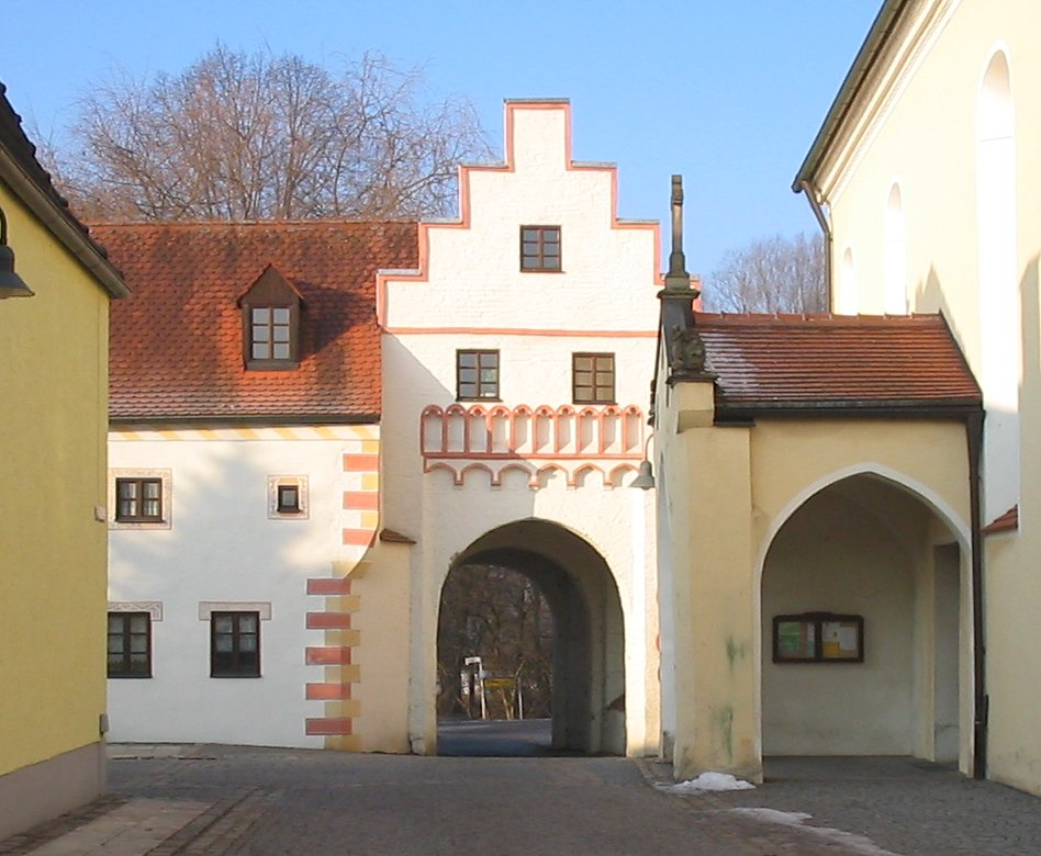 Town gate of Hohenwart, Bavaria, Germany